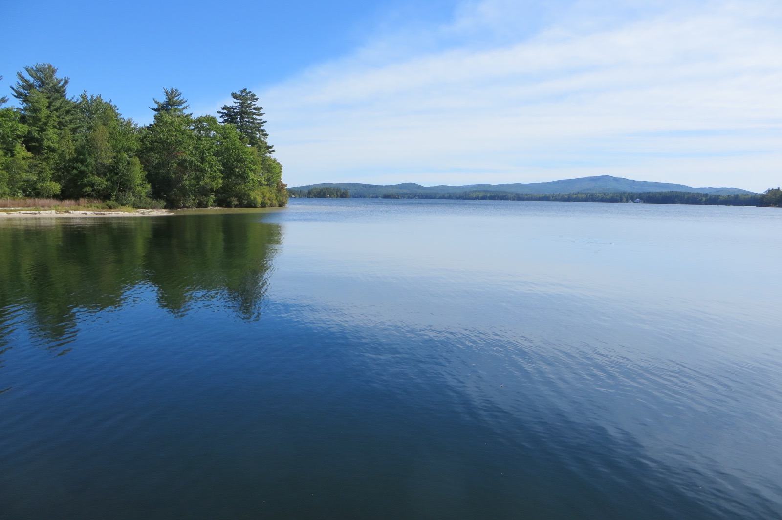 Lake Wentworth, in Wolfeboro, New Hampshire, looking east from west end of lake